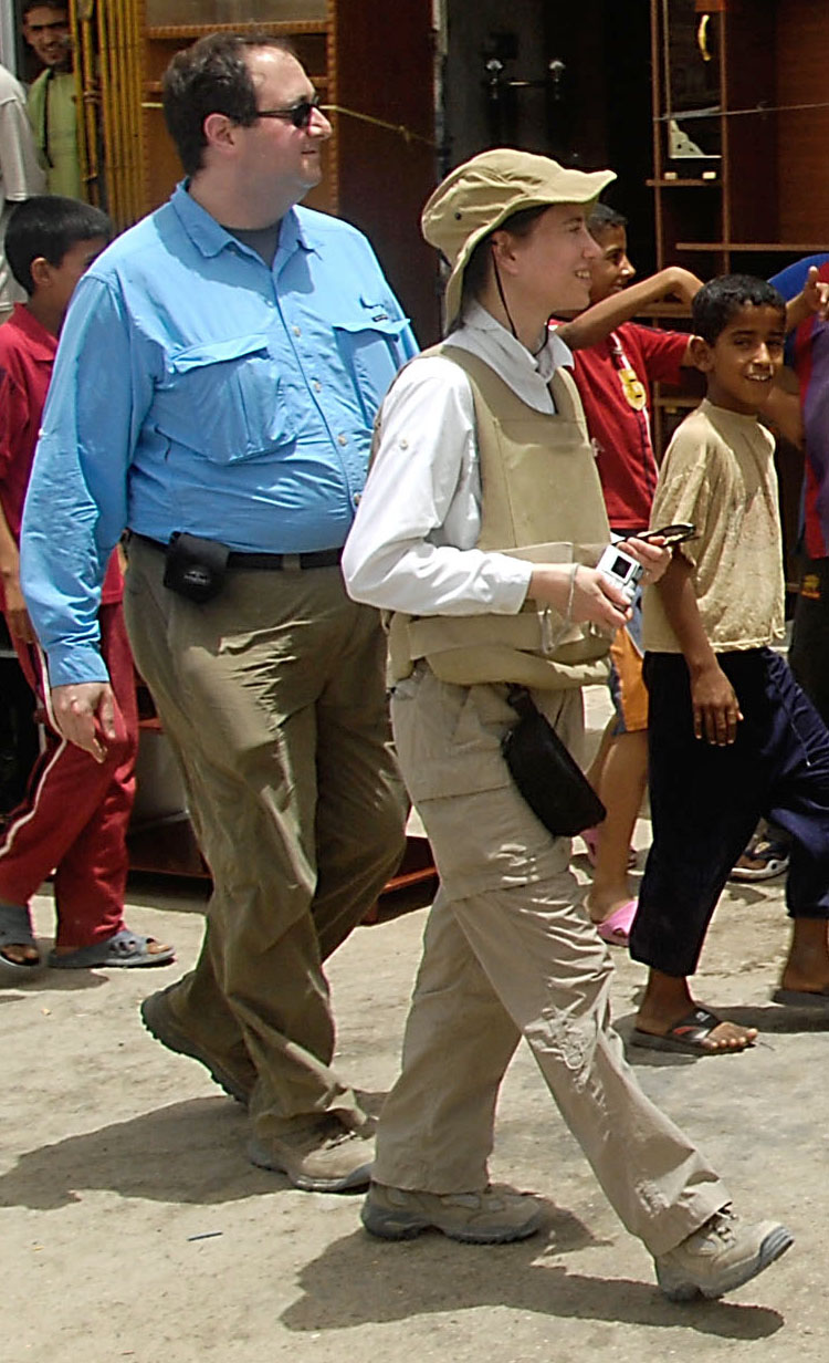 Cropped version of photo taken by the US Army, showing Drs. Frederick and Kimberly Kagan touring Basra, Iraq with retired General Jack Keane.